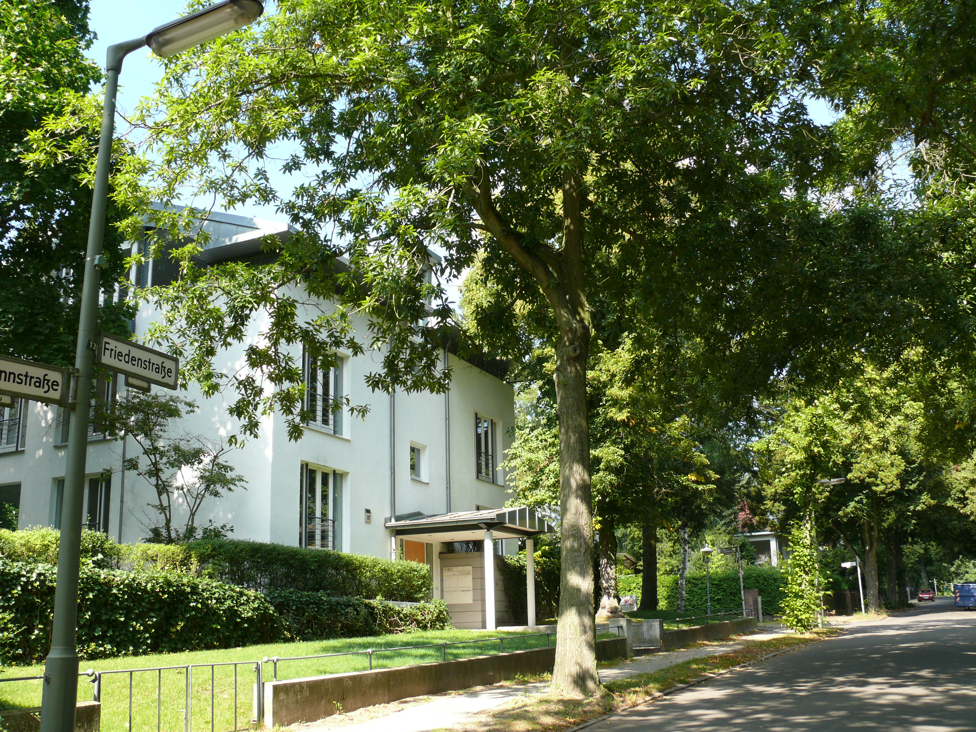 Berlin-Wannsee Friedenstraße